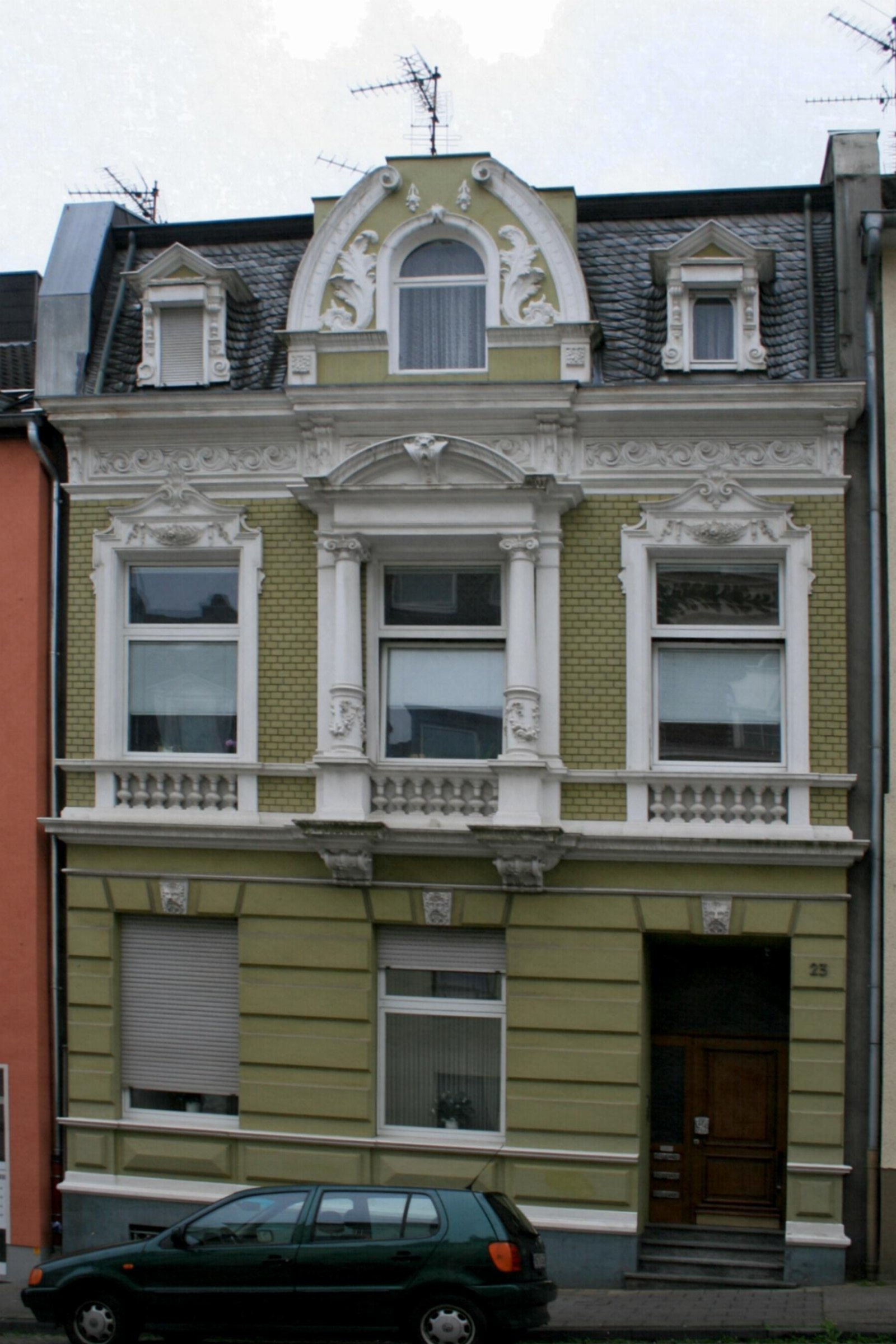 Cultural heritage monument No. B 054 in Mönchengladbach